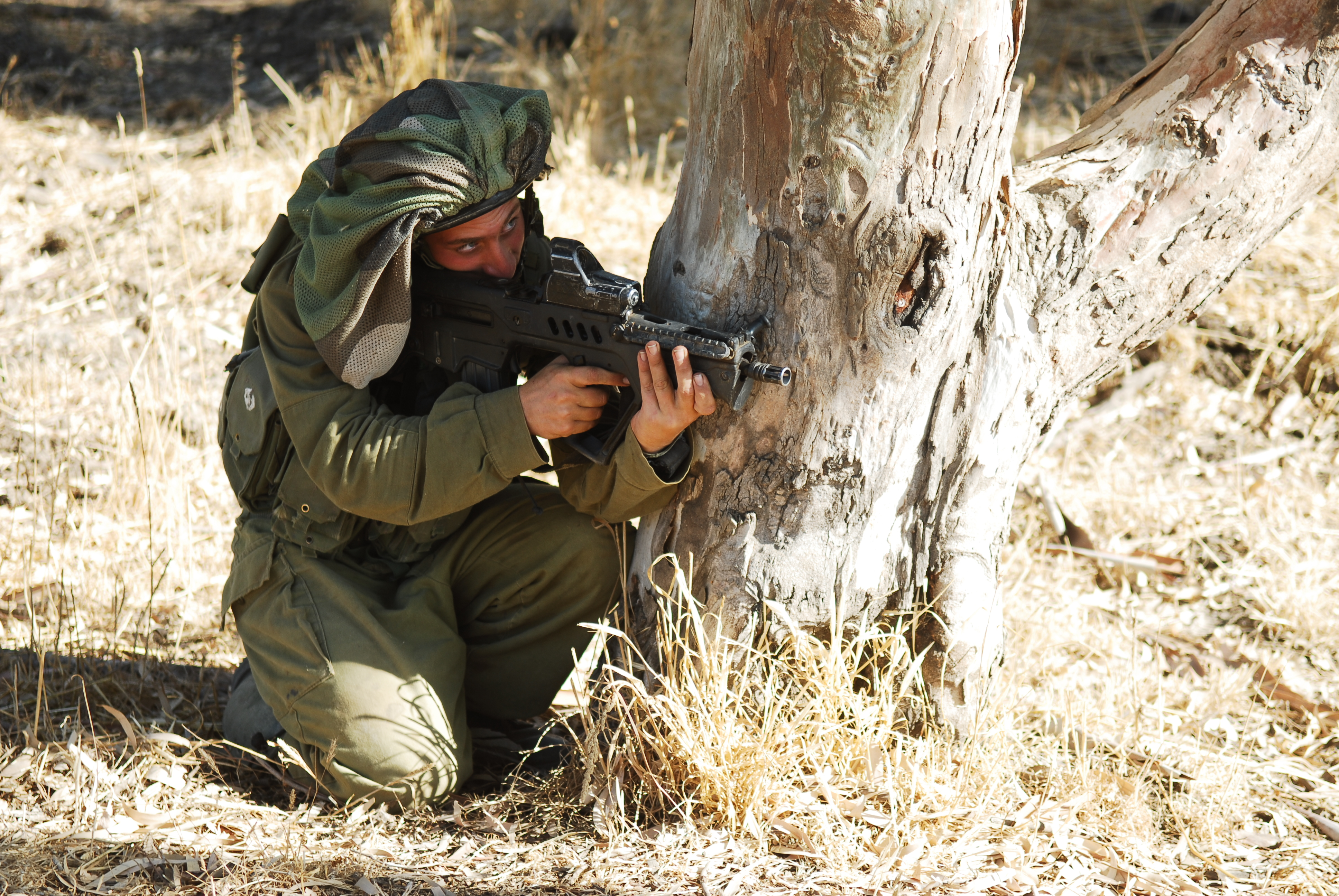 August 21, 2012 The 13th Battalion of the Golani Brigade during a drill held in the Golan Heights, northern Israel. The NAMER ("Tiger"), a new vehicle combining the artillery abilities of the Merkava tank and the APC's shielding capacities, was fully integrated in this drill for the first time, improving the battle tactics used by the IDF in the field. Photo by Staff Sgt. (res.) Abir Sultan The Israel Defense Forces Facebook • blog • Twitter